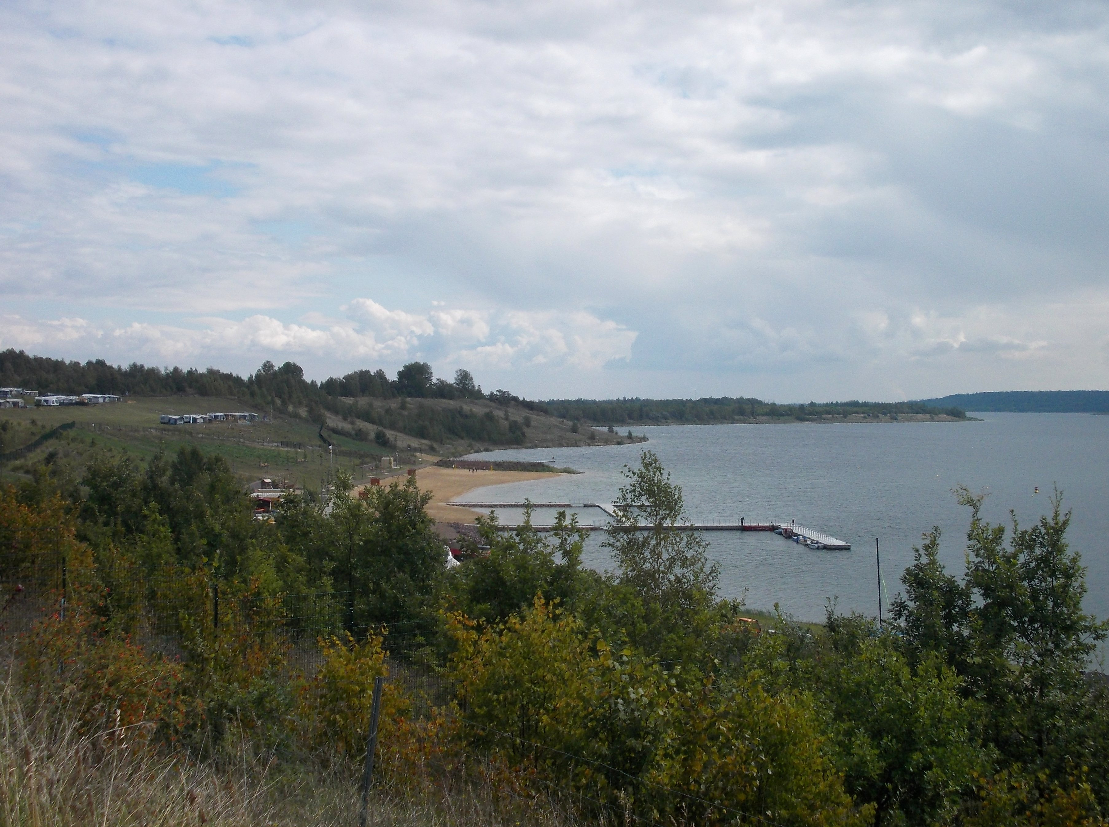 Geiseltal Lake with Stöbnitz beach (Mücheln, district: Saalekreis, Saxony-Anhalt)